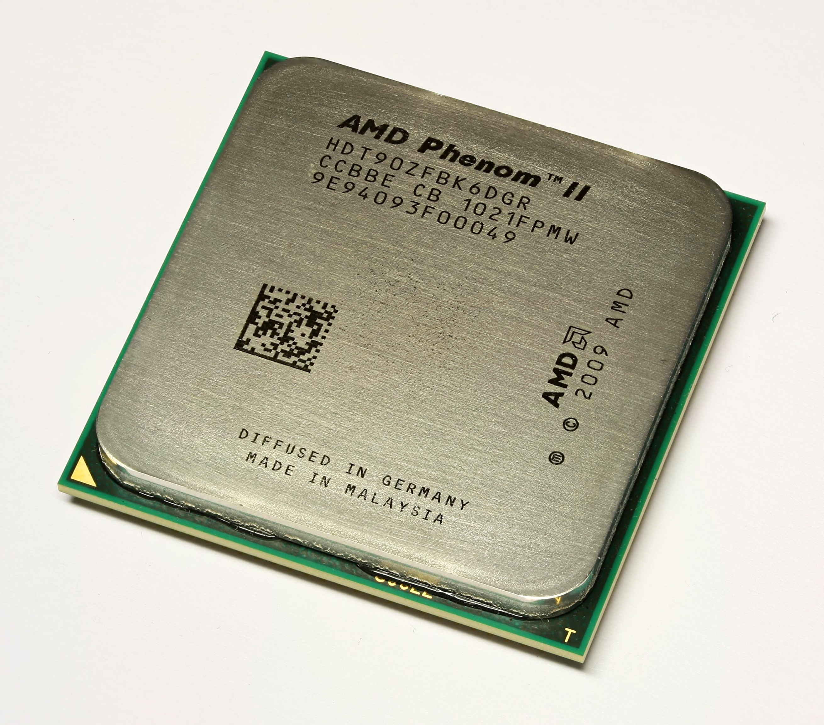 The top of an AMD Phenom II X6 1090T (HDT90ZFBK6DGR) CPU